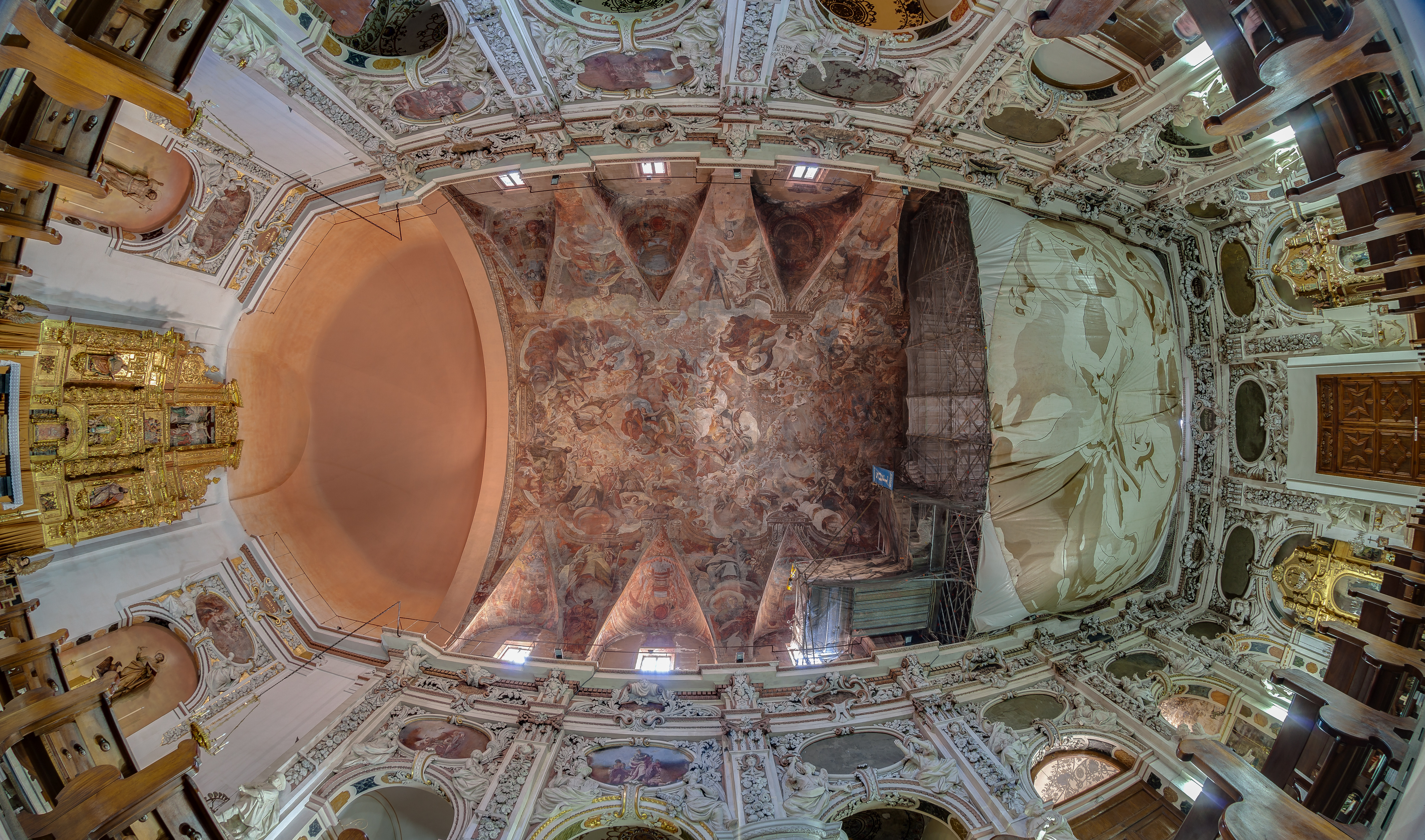 Juanes church, Valencia, Spain